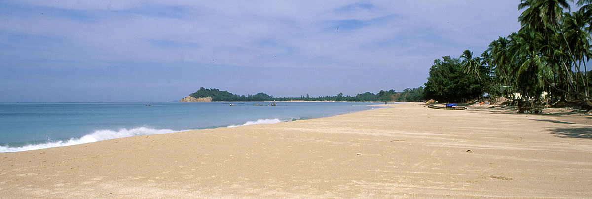 Ngapali Beach, Rakhine State, Myanmar.